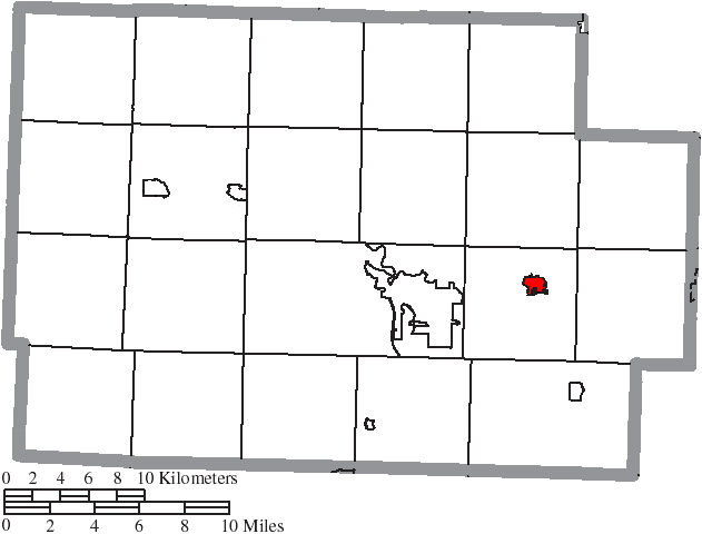 Map of the municipal and township boundaries of Coshocton County, Ohio, United States, as of the 2000 census, with the location of the village of West Lafayette highlighted. Township borders are shown only in unincorporated areas in order to differentiate incorporated and unincorporated areas more clearly.